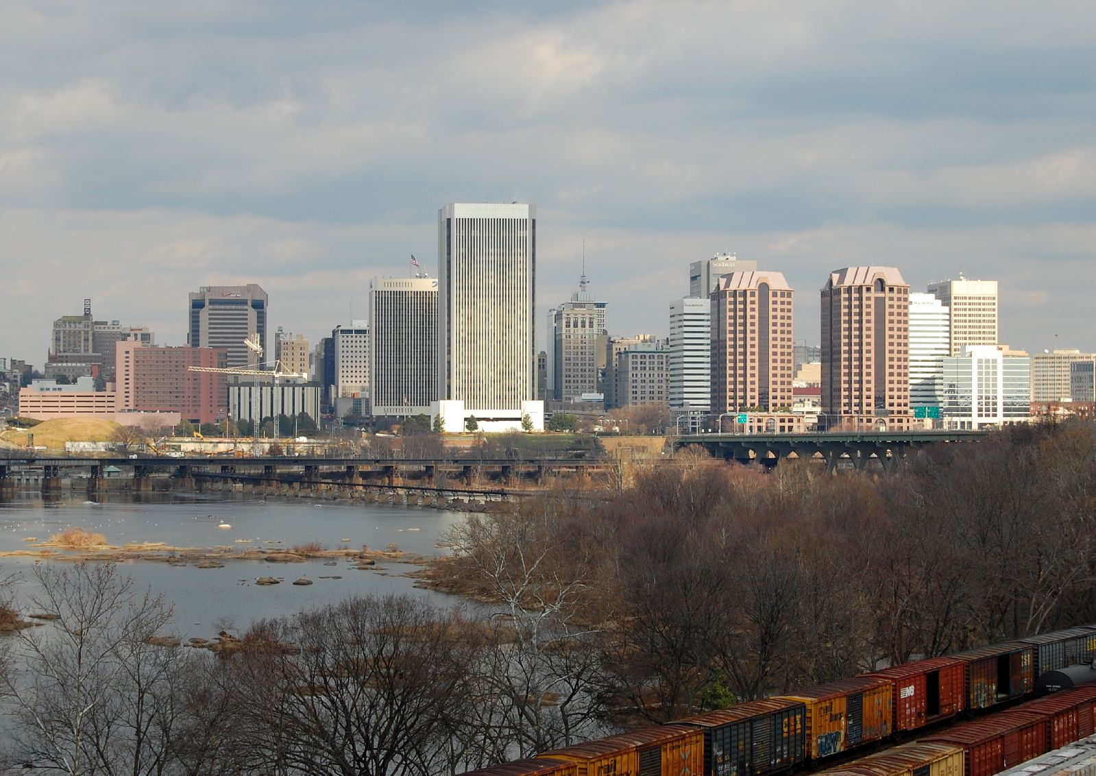 View of the Richmond skyline from south of the James River. The sun peeked out just long enough to hit the buildings before the clouds obscured the light.